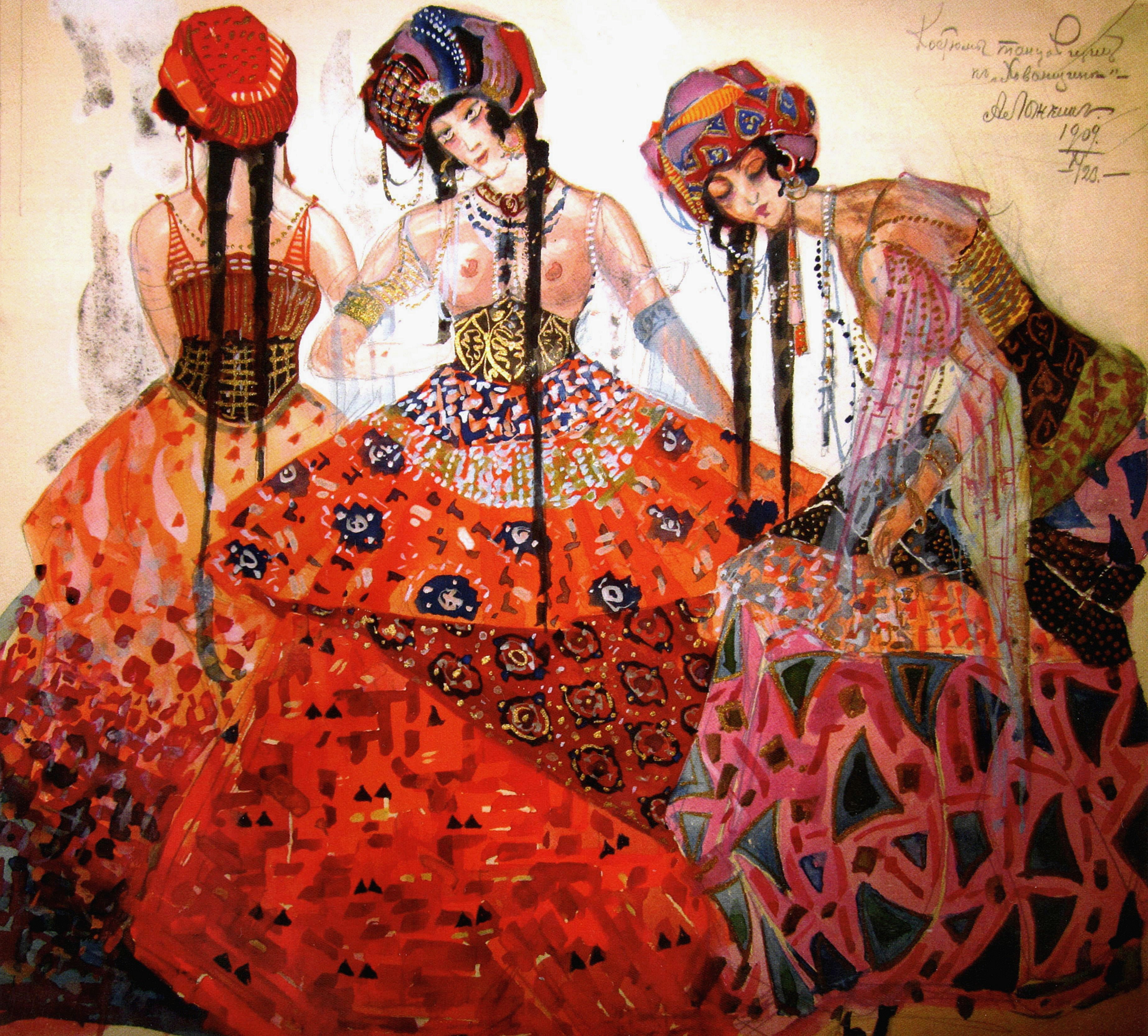 Aleksandr Lozhkin was on friendly terms with the stage designer Fyodor Fedorovsky who collaborated with Sergei Diaghilev and created designs for several performances of his Ballets Russes. Probably, Fedorovsky let Lozhkin to have a part of Diaghilev’s order.